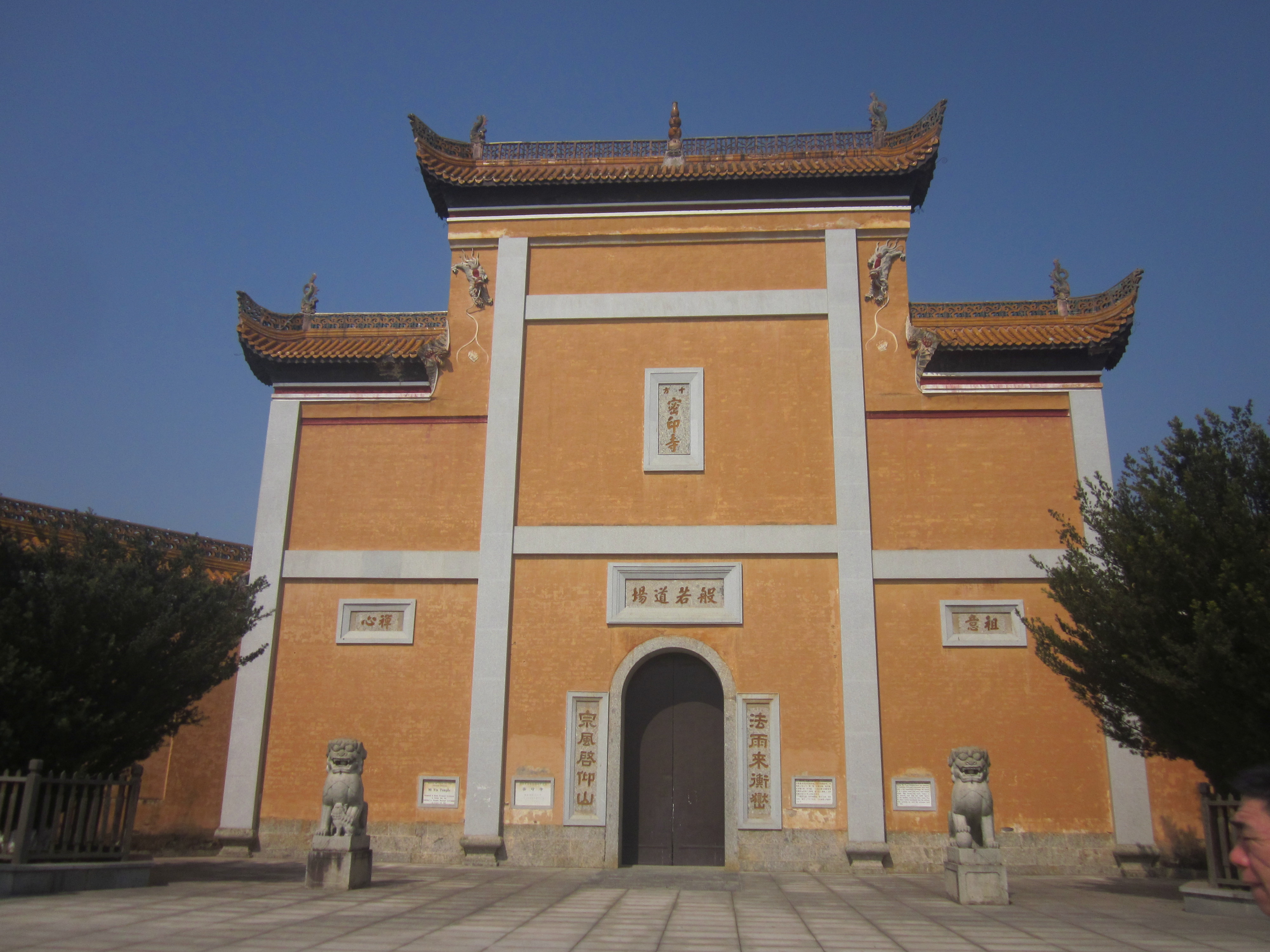 Frontal View of the shanmen of Miyin Temple from opposite side of the square.